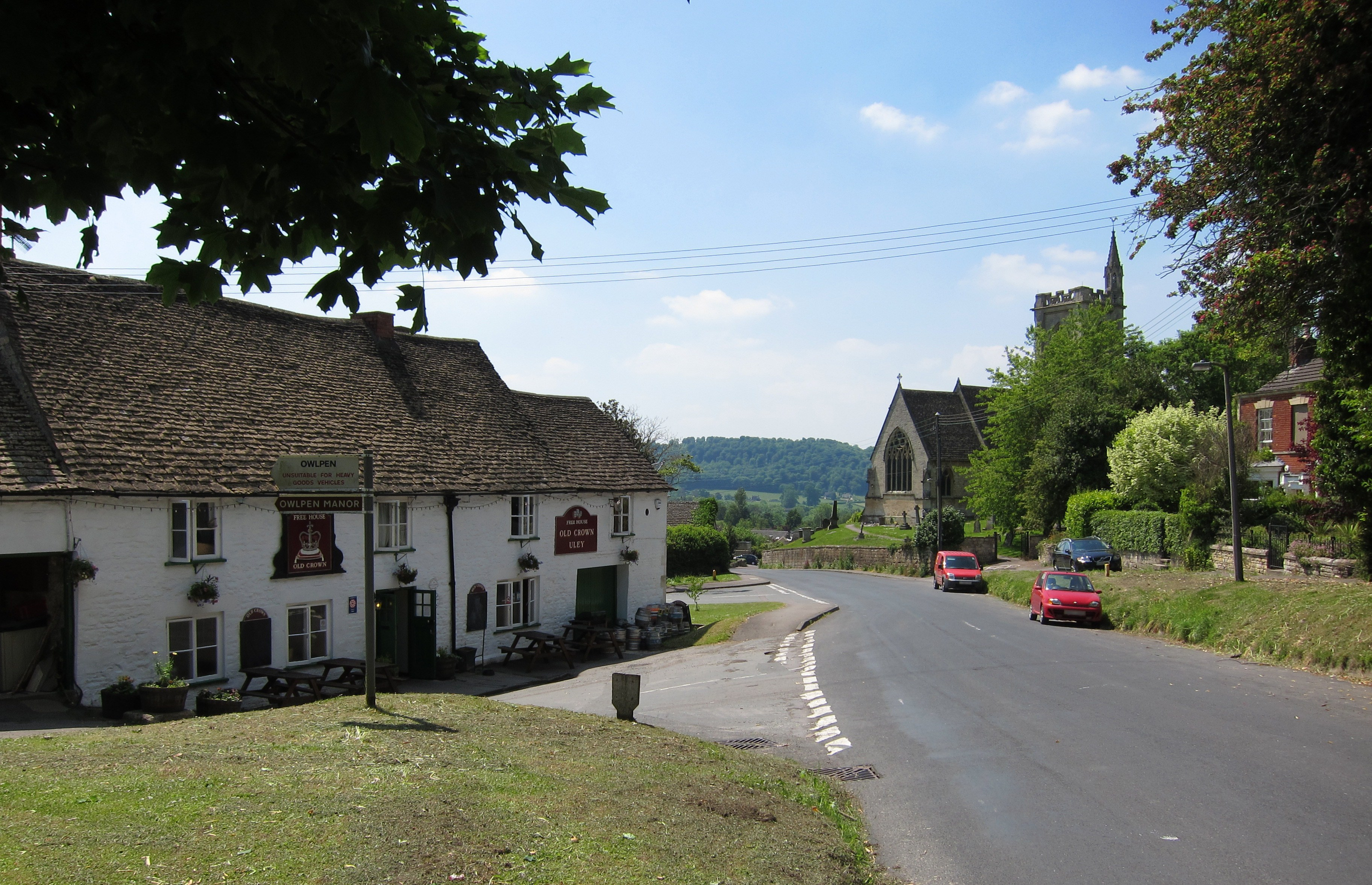 Uley, Gloucestershire, England. View of the church and pub from the village green